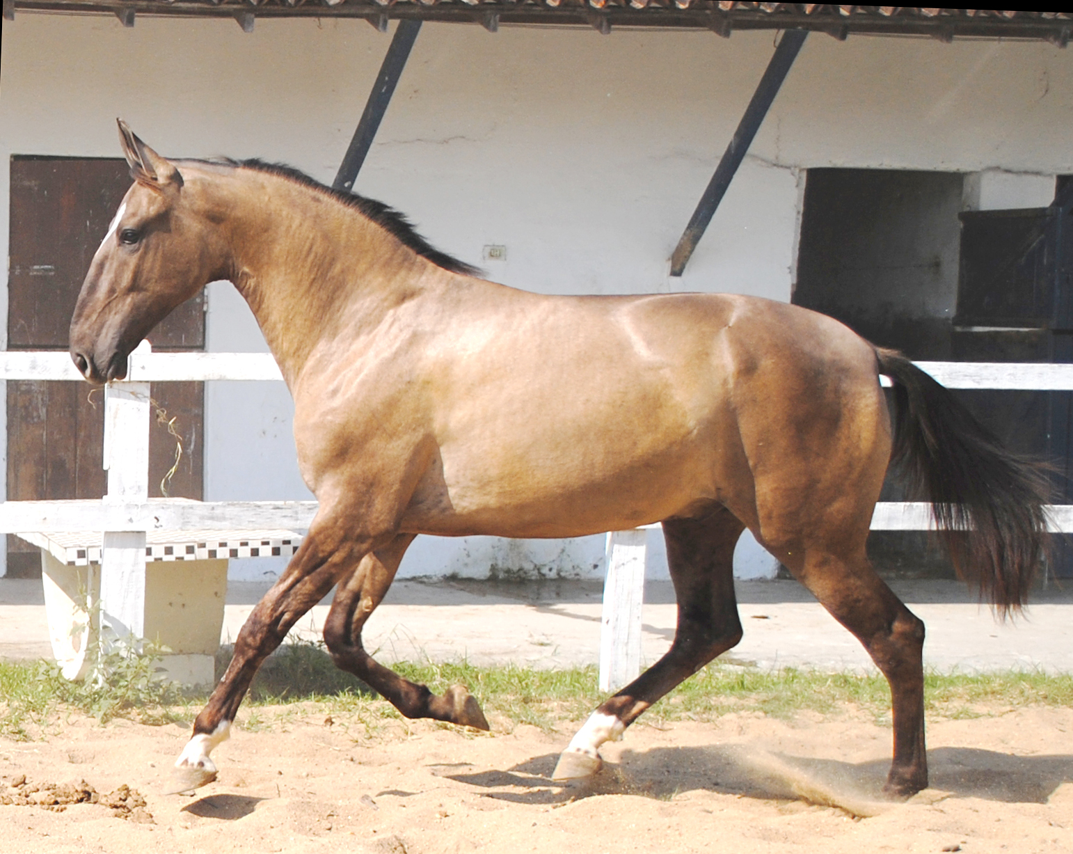 This image shows the improved "lightness" of motion enabled by morphological changes in this breed. Image should be interpreted in contrast with images of former breed ideals for head and torso.